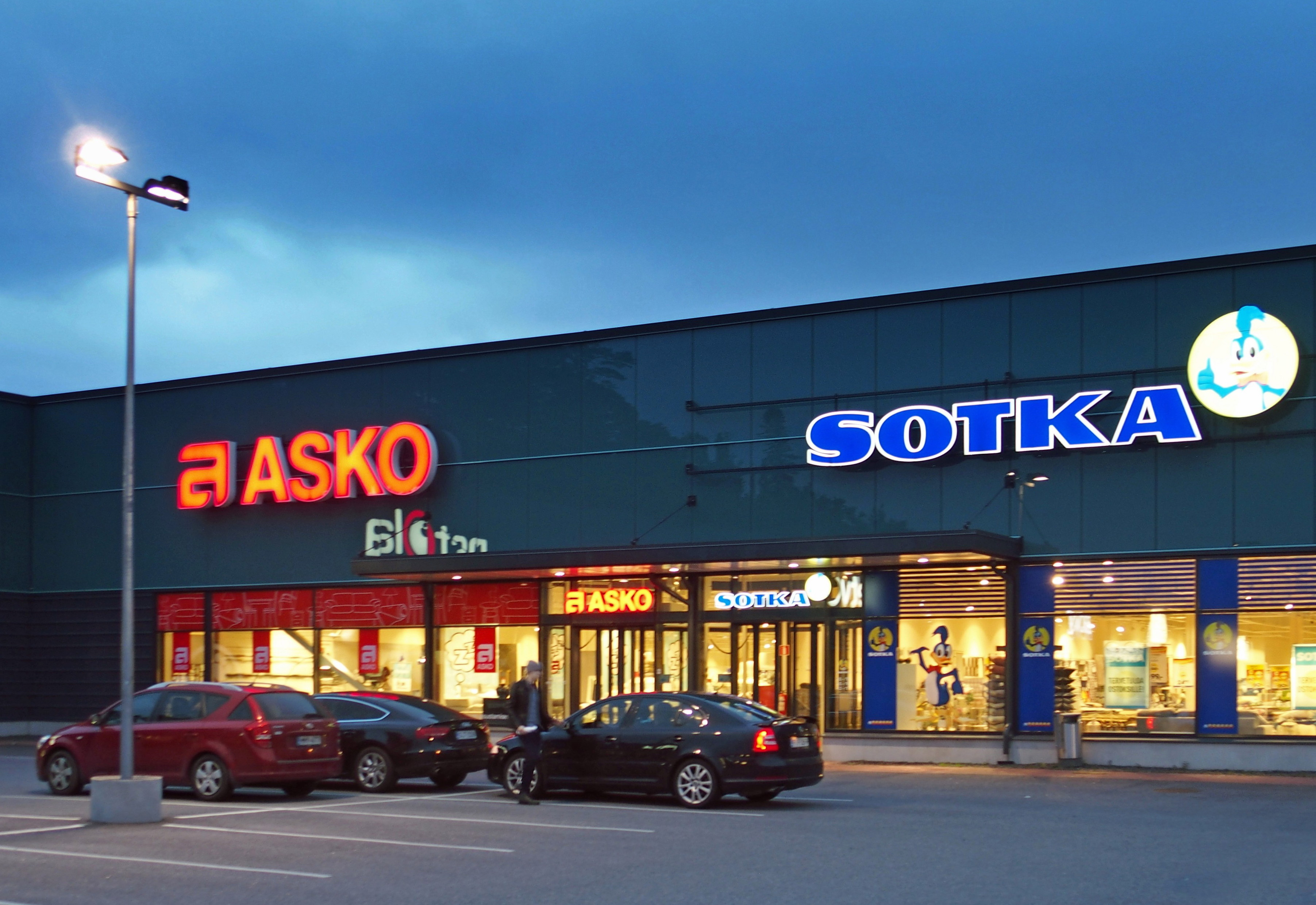 Asko and Sotka furniture stores (both chains operated by Indoor Group] in Lauste, Turku, Finland.